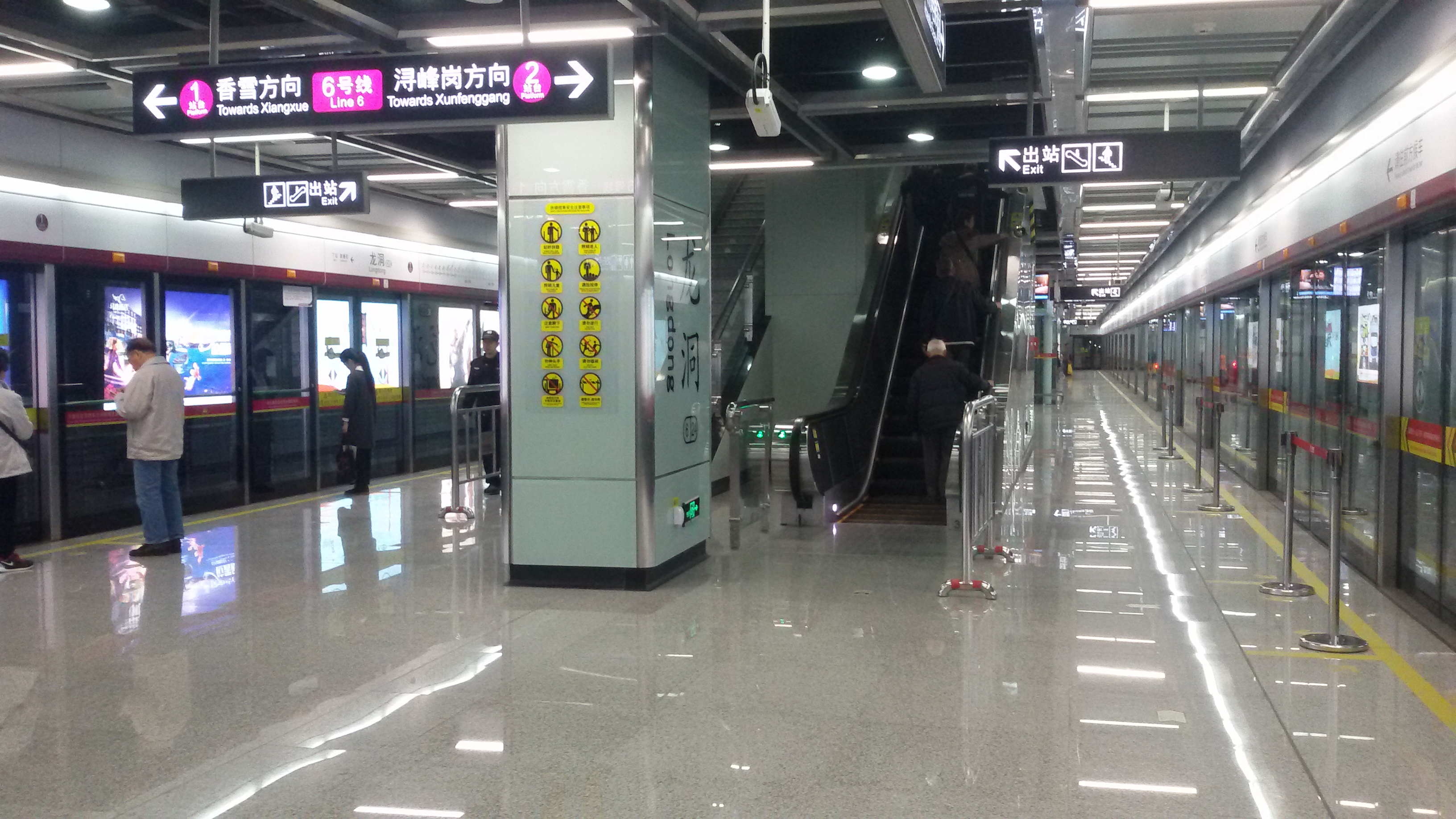 Station Platform for Longdong Station in Guangzhou Metro.